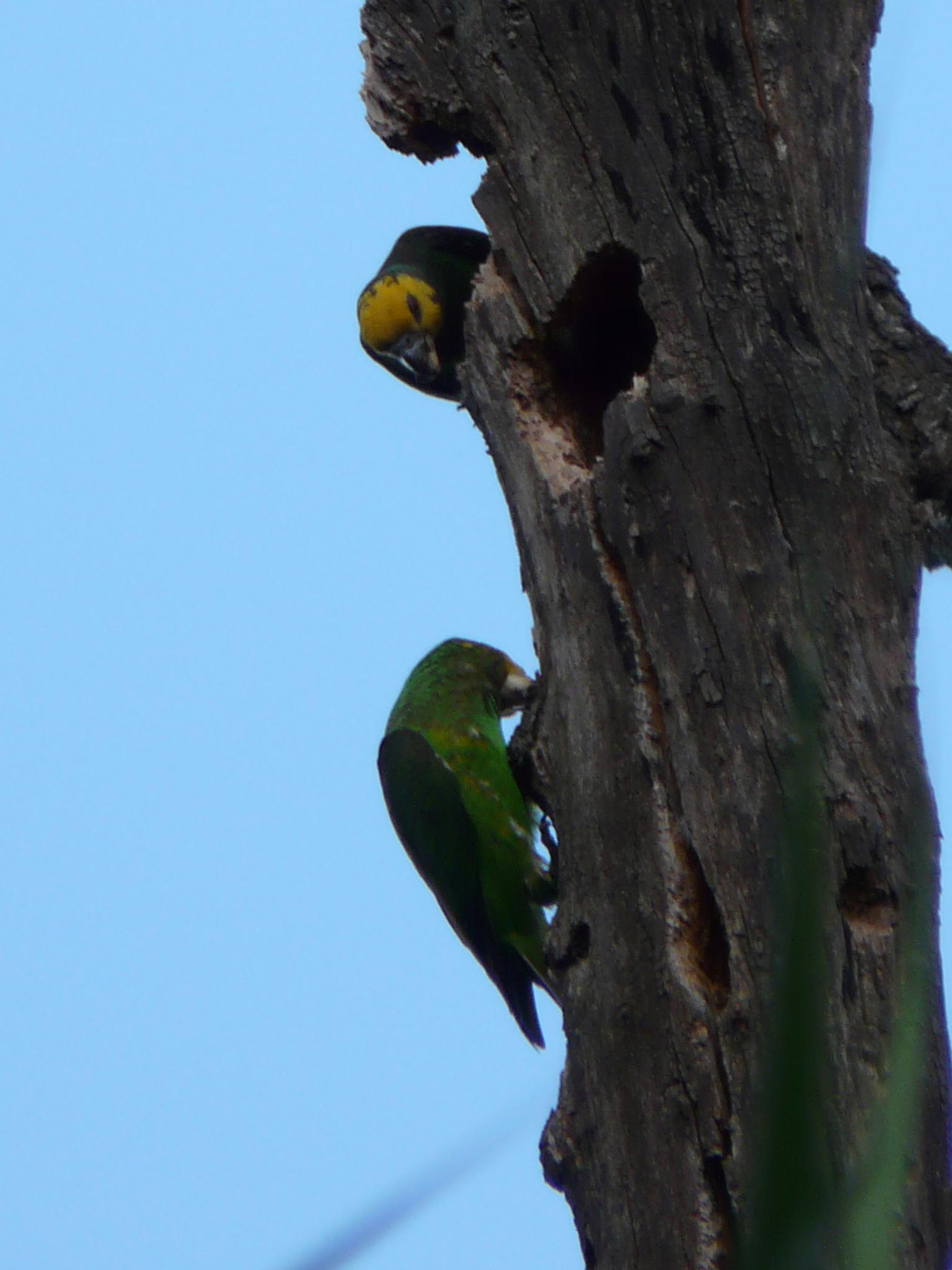 Yellow-fronted Parrots on an island in Lake Tana, located in Amhara Region in the north-western Ethiopian highlands. The bird with the yellow head is an adult and the mainly green one (below) is a juvenile.